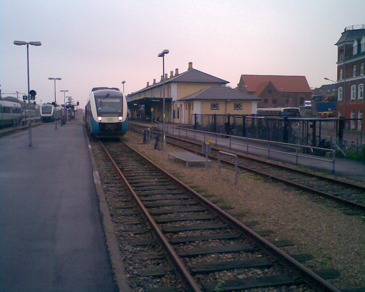 Struer Station, Denmark